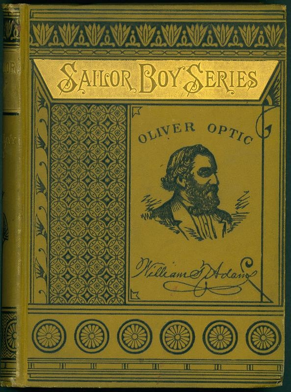 Sailor boy, or, Jack Somers in the navy; A story of the great rebellion, by Oliver Optic. Boston: Lee and Shepard, 1863